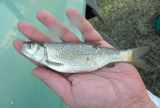 Squalius squalus collected in Grosseto province (Tuscany, Central Italy). Released after photo.